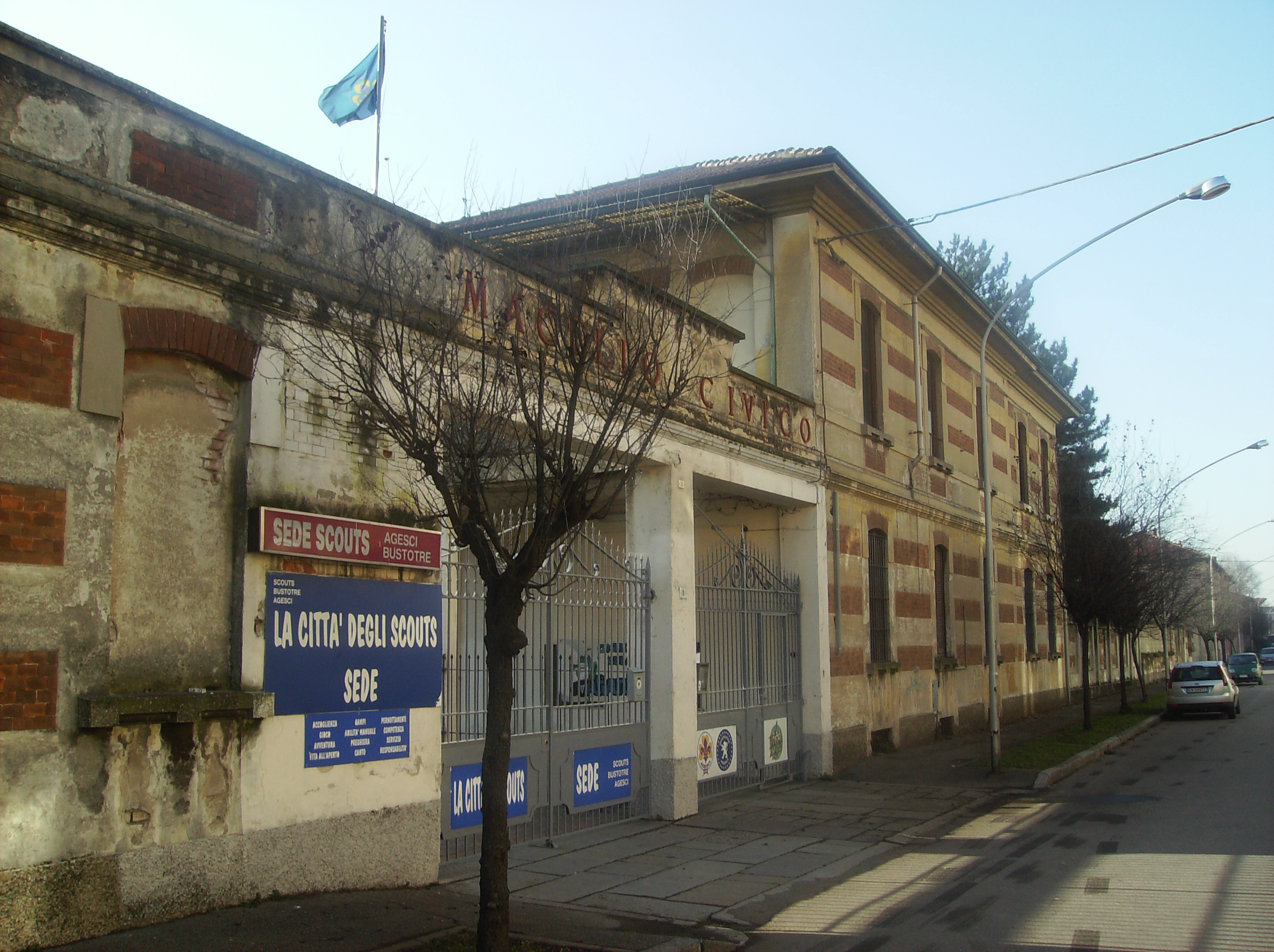 Ex Macello Civico - Busto Arsizio